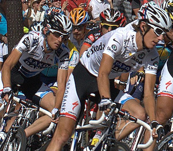 Andy and his brother in Paris